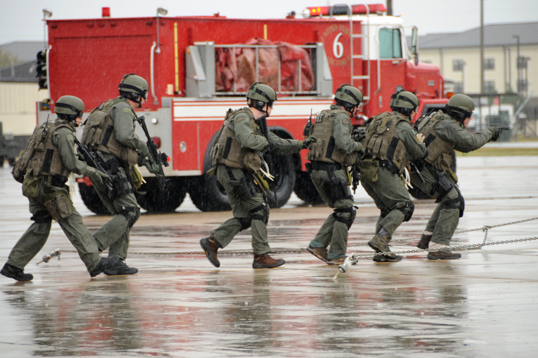 An FBI SWAT team conducts an anti-hijacking exercise at Keesler Air Force Base. Original Description: An FBI special weapons and tactics team moves in to surround a C-130 during an exercise on the flight line Dec. 12. (U.S. Air Force photo by Kemberly Groue)